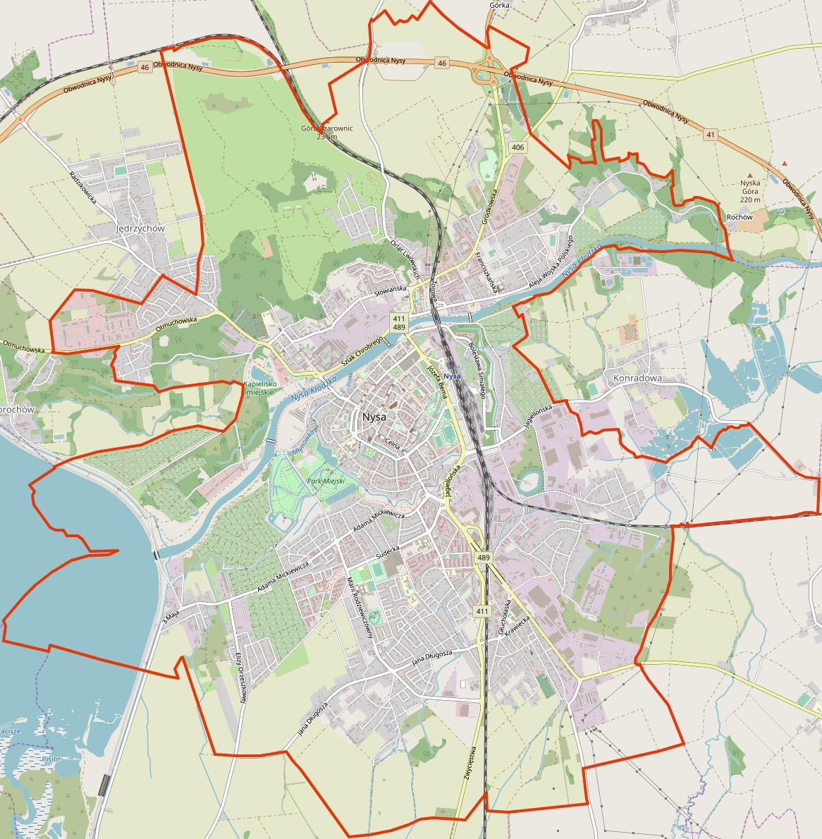 Location map of Nysa, Poland This map of Nysa was created from OpenStreetMap project data, collected by the community. This map may be incomplete, and may contain errors. Don't rely solely on it for navigation.